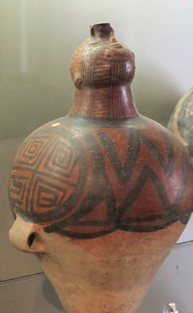 Painted earthenware double-loop-handeled pot, with human image in relief, 2. Majiayao culture, Machang phase. Gansu-Qinghai, 2400-1950 BCE. Museo d'Arte Orientale. Torino.